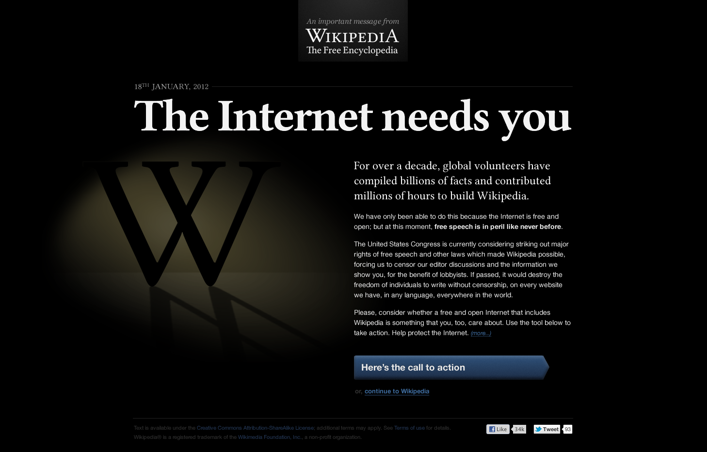 SOPA blackout page mockup